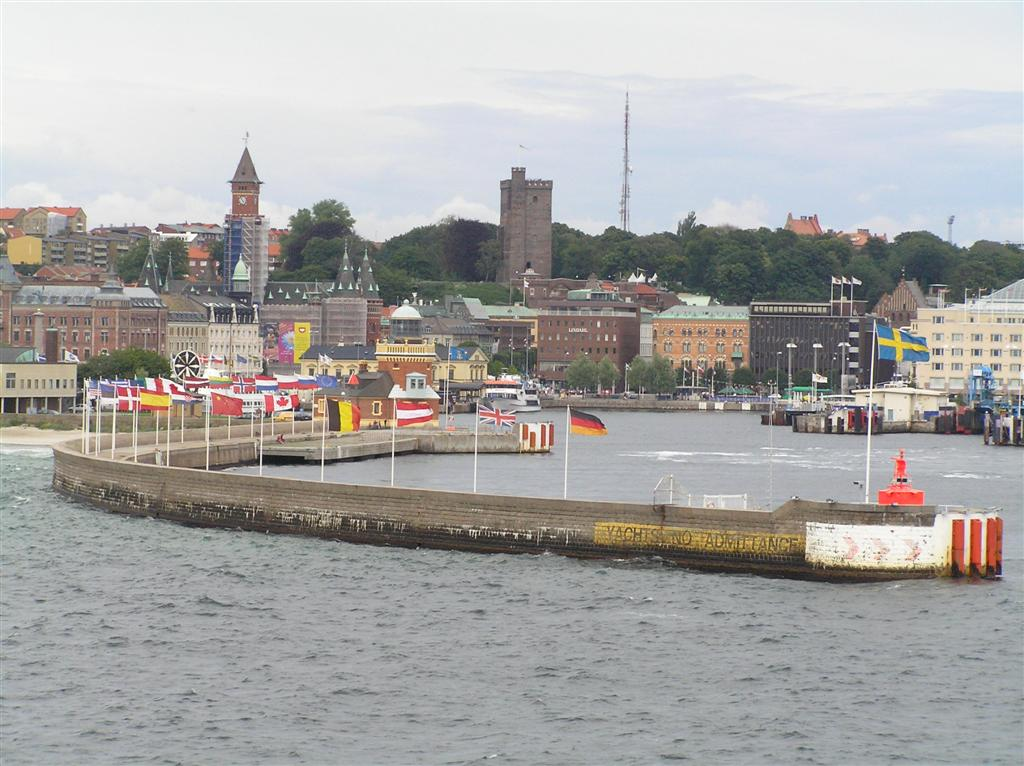 Photo: Bengt Olof Åradsson